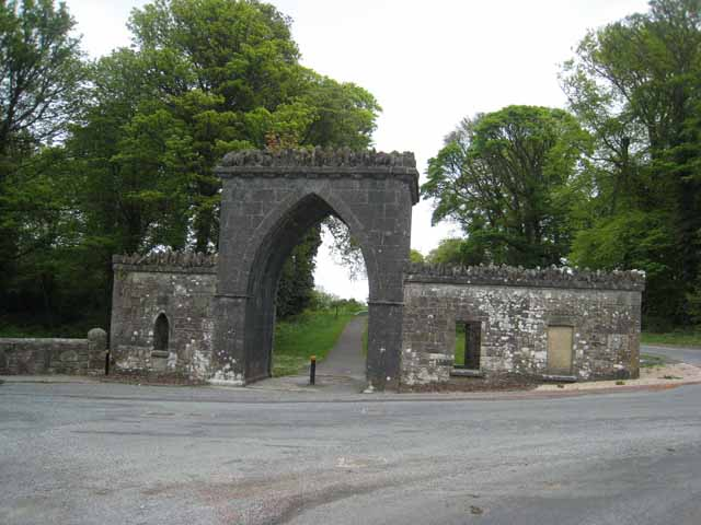 Outer gateway of the Rockingham Demesne This constitutes the westernmost (Boyle) entrance to the Rockingham Demesne - a large country estate which formerly housed the Lords Lieutenant of Ireland. There is another gatehouse a further kilometre into the estate.